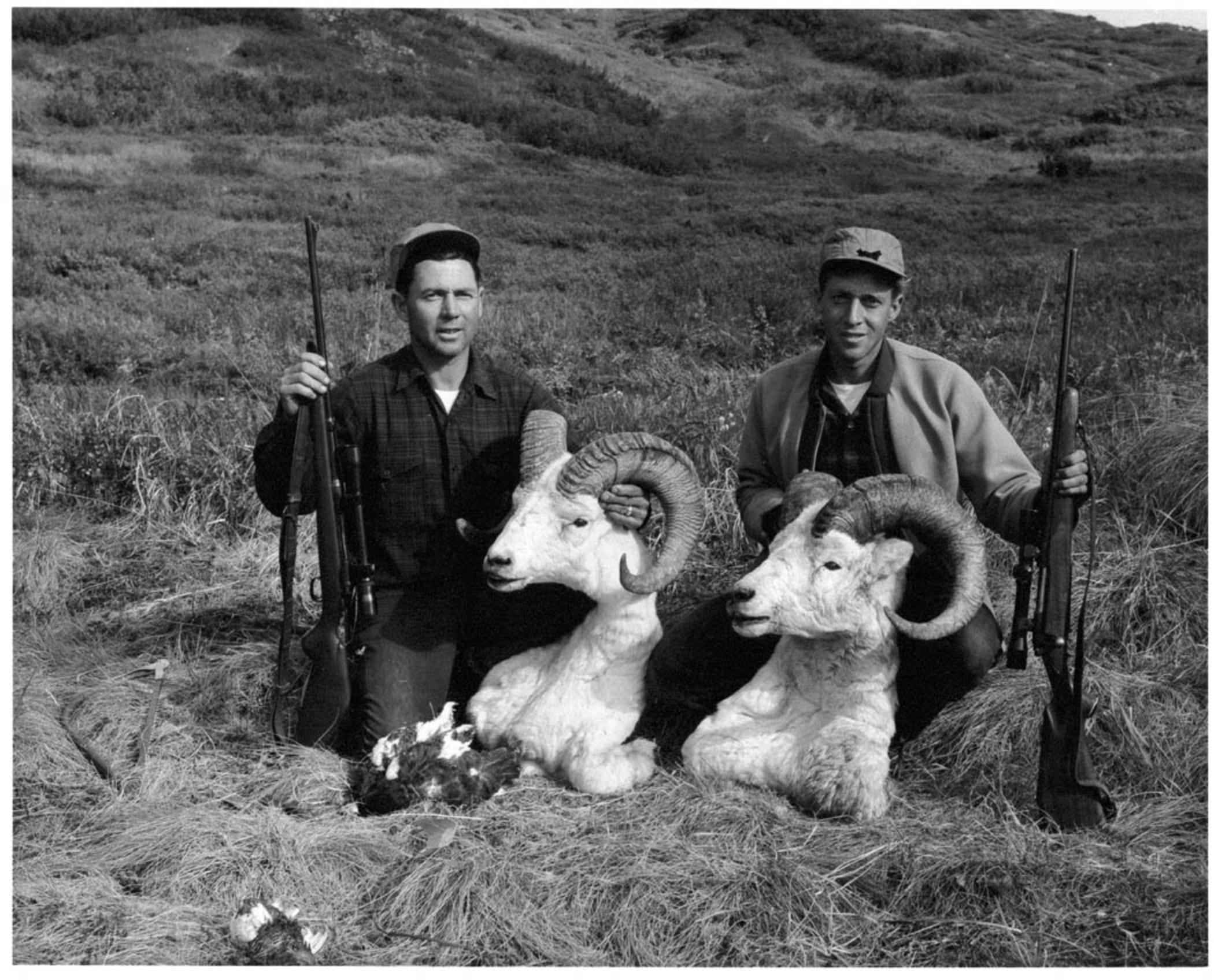 Hunters with Dall Ram Heads. A mixed bag of Dall sheep and Ptarmigan is enjoyed by these Alaskan hunters. FWS keywords: Recreation; Hunting; ARLIS; Alaska. Source: FWS-6522. Rights: Public domain